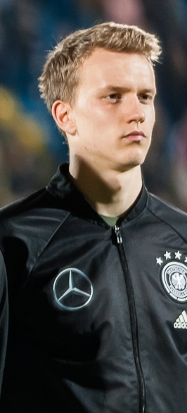 Lukas Klostermann